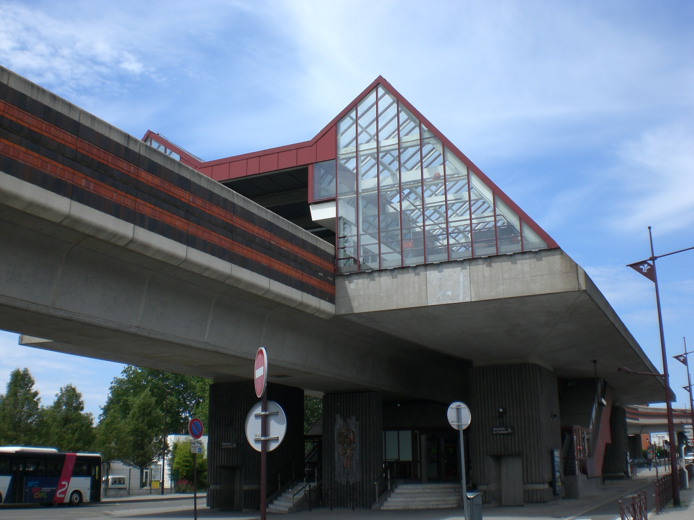 Lille (France) subway - station CHR Oscar-Lambret